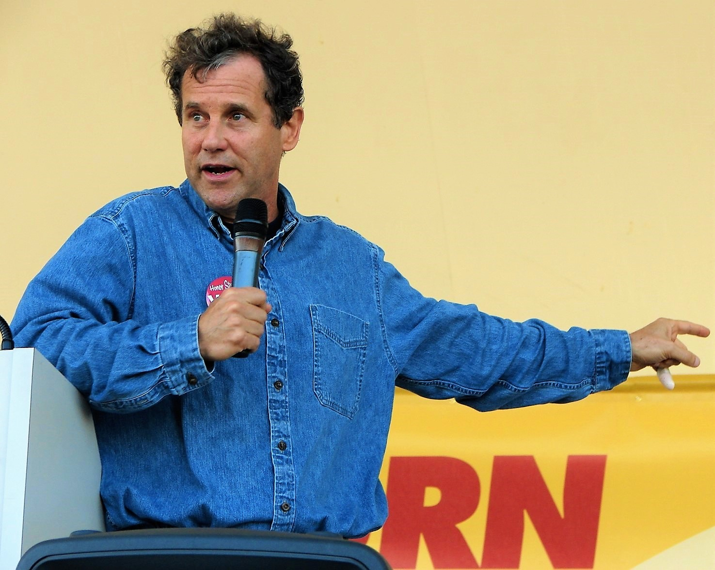 Lorain, Ohio